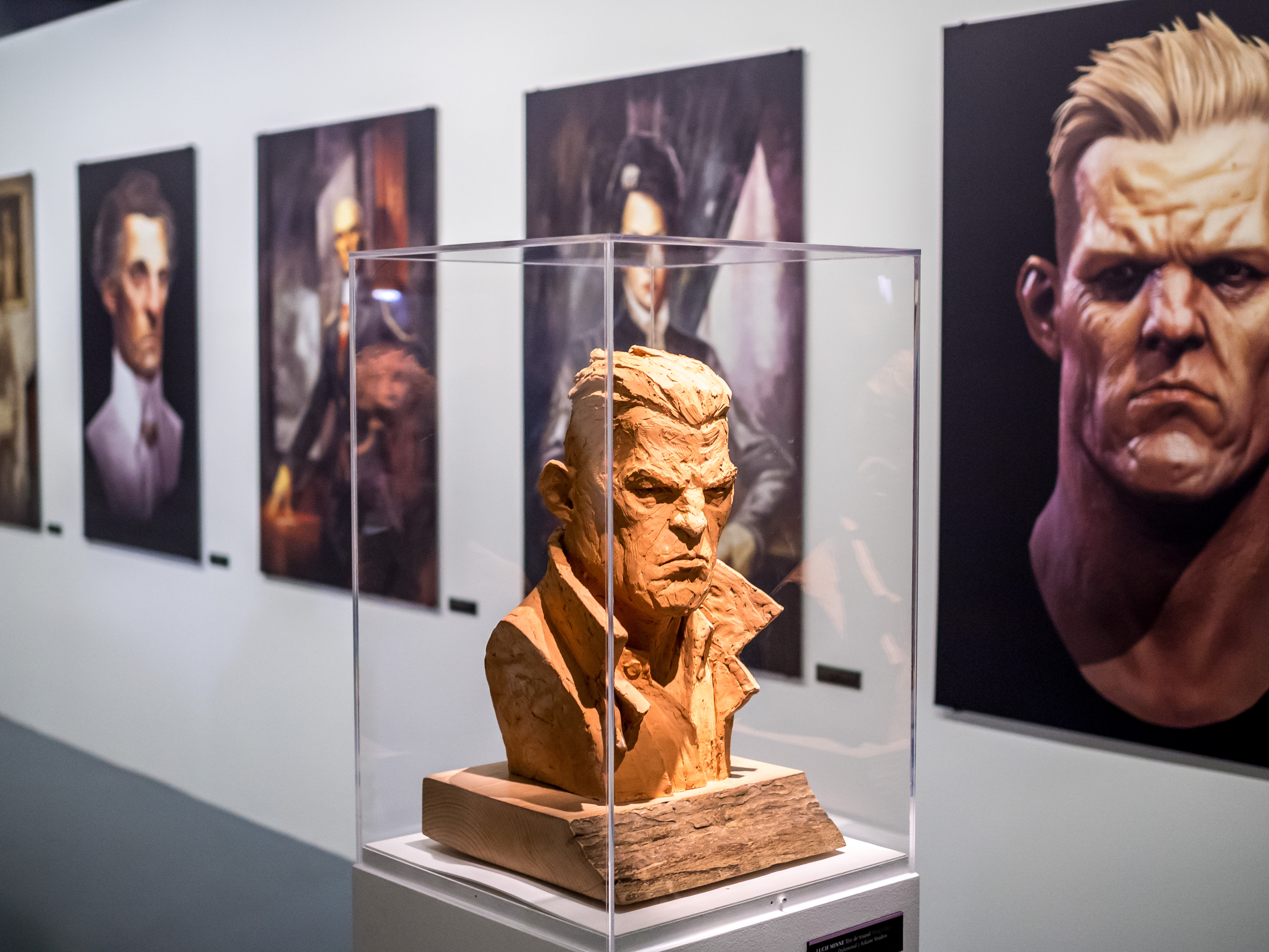 Photo of the Dishonored exhibit at the Art Ludique.